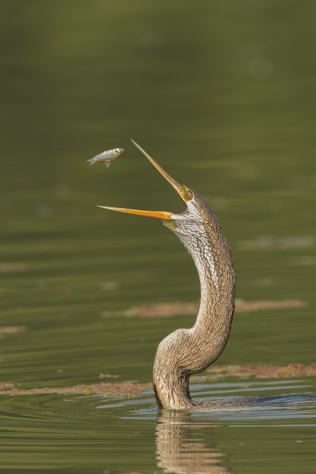 Darter with Toss at Keoladeo Ghana National park, Bharatpur